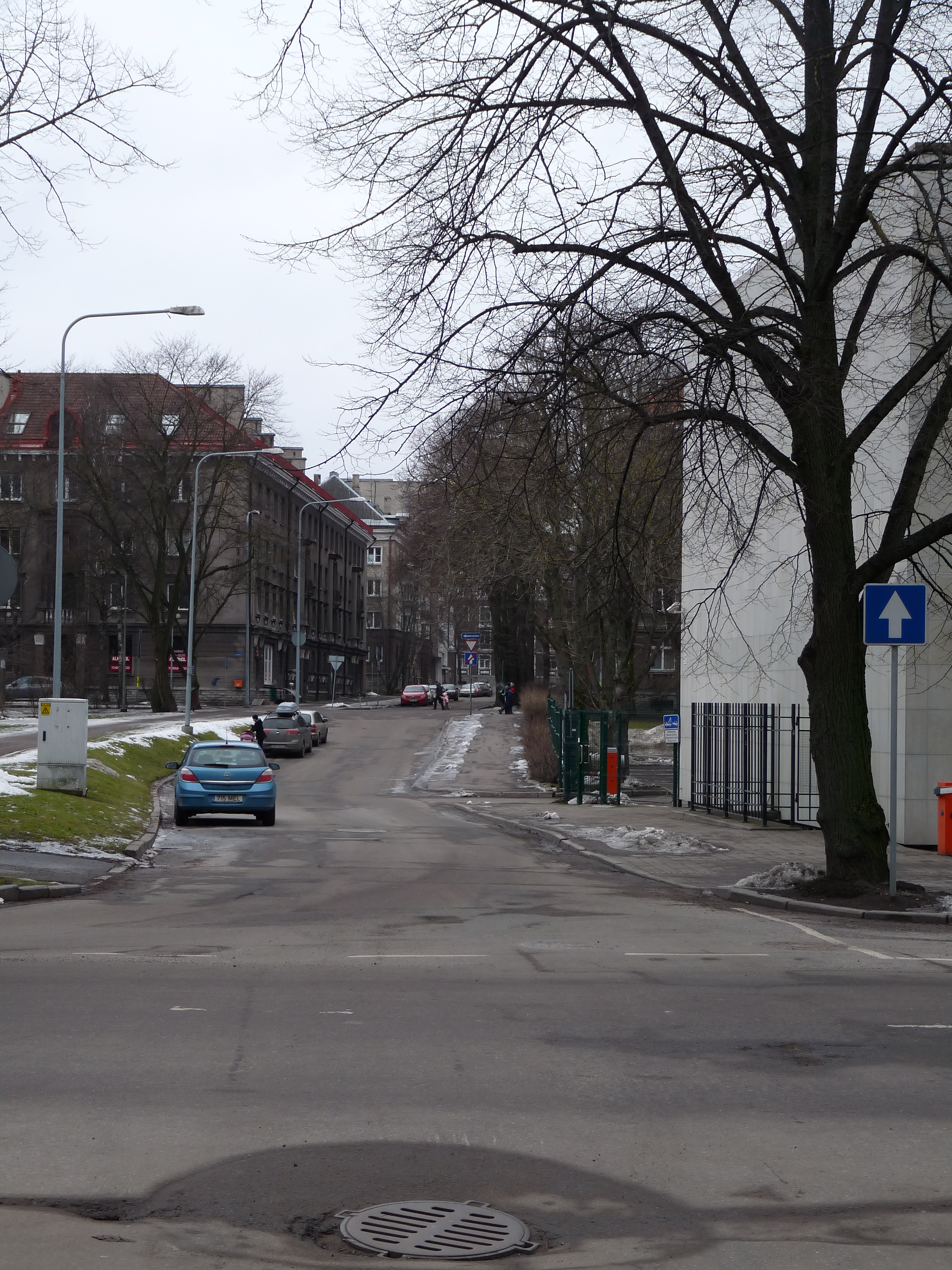 Kauka street in Tallinn, Estonia